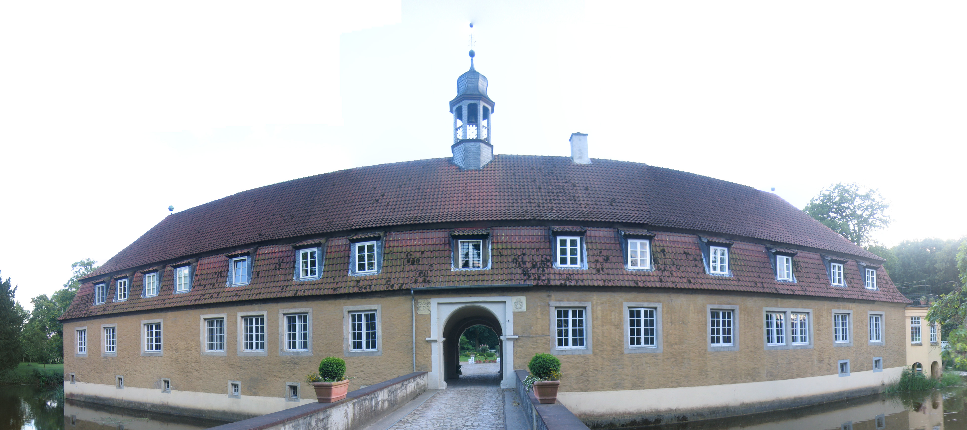 Oberbehme Castle in Kirchlengern, District of Herford, North Rhine-Westphalia, Germany.